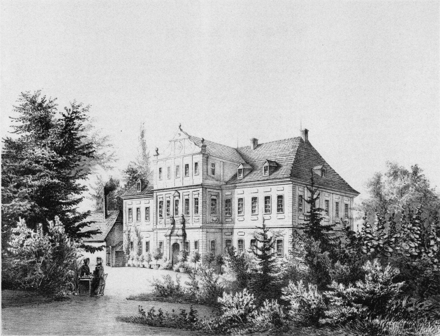 manor Stauchitz, Saxony in its estate of 1859